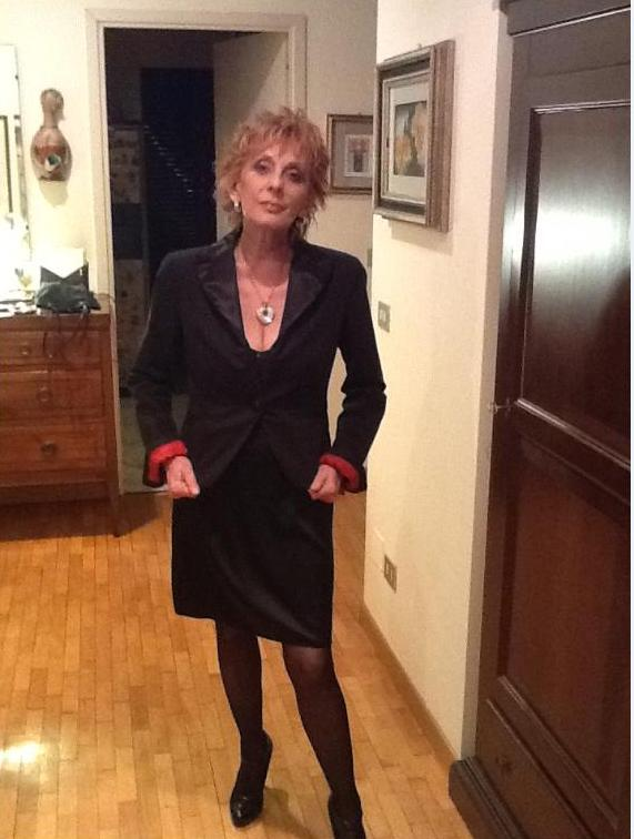 Portait of the Italian Journalist Rosanna Marani